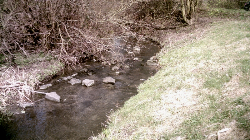 Hammer Bach Creek in Hamm, Viersen, Germany